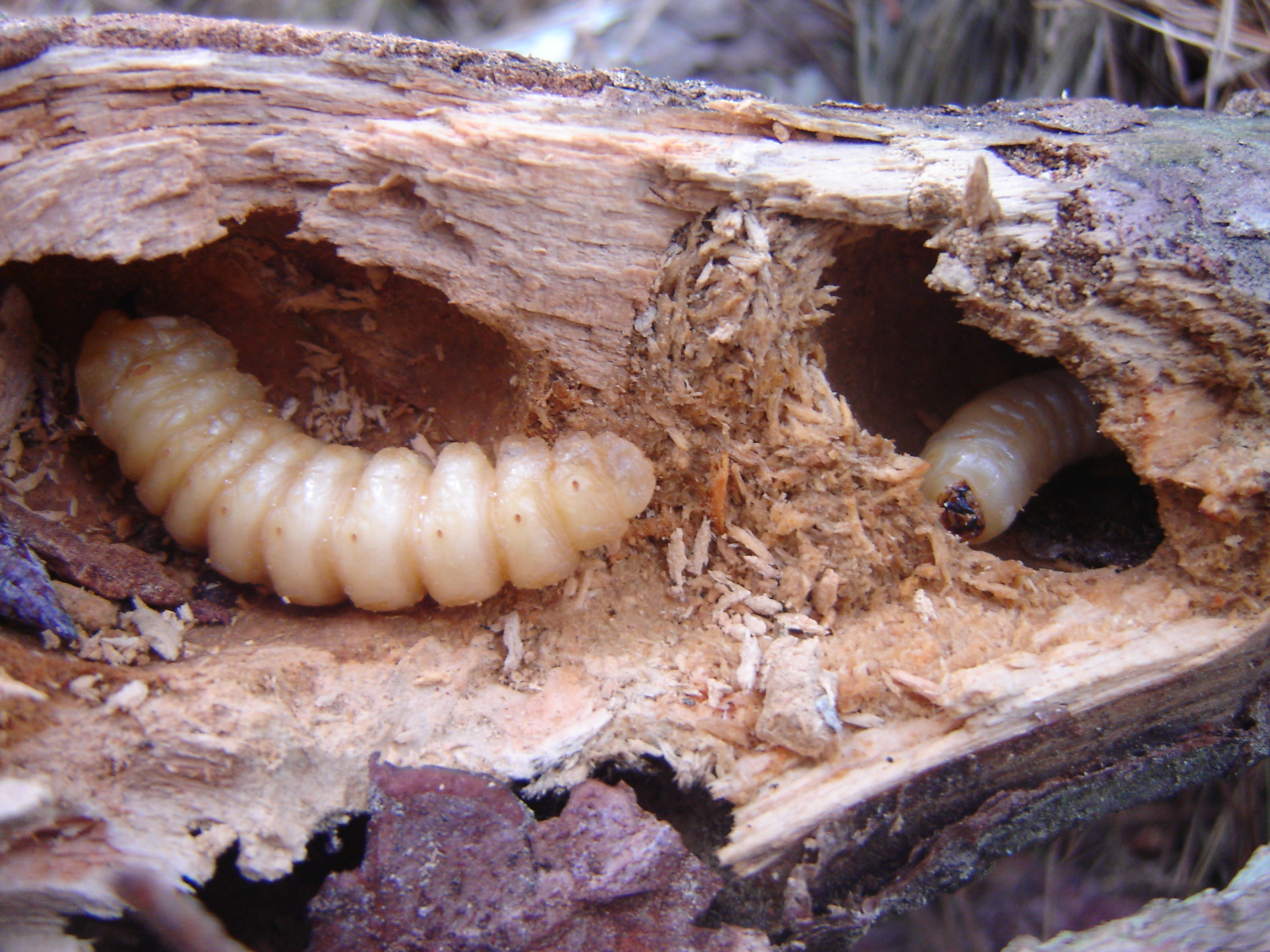 Photo by Charlotte Simmonds of huhu grubs in a rotten pine wood. They are the larvae of the huhu beetle, Prionoplus reticularis, the largest endemic beetle of New Zealand, a member of the longhorn beetle family Cerambycidae. The whitish larvae are up to 70 millimetres (2.8 in) long. They are edible and are said by some to taste like buttery chicken.